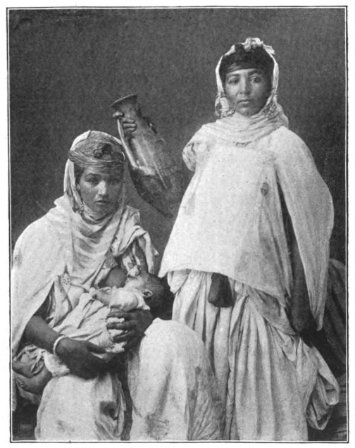 Kabyle women and child in Algeria.